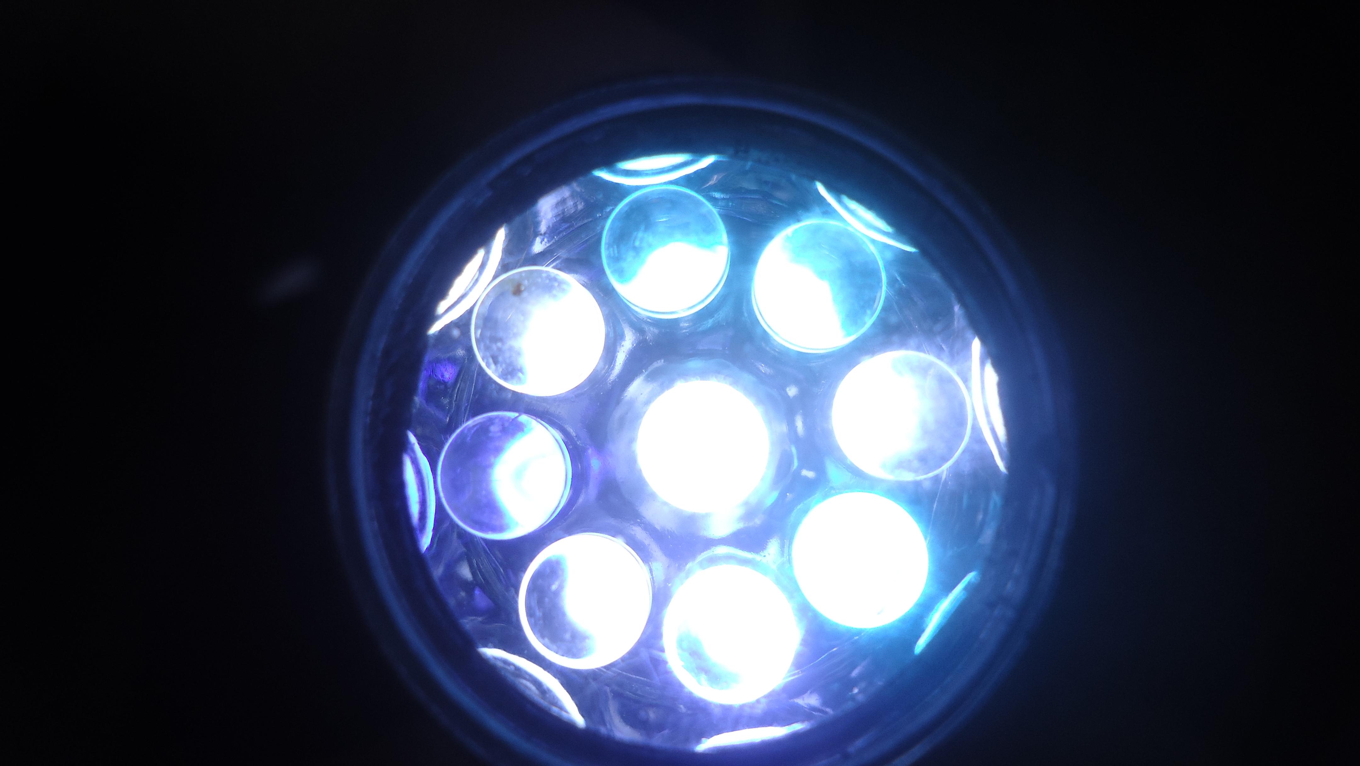 LED Lantern